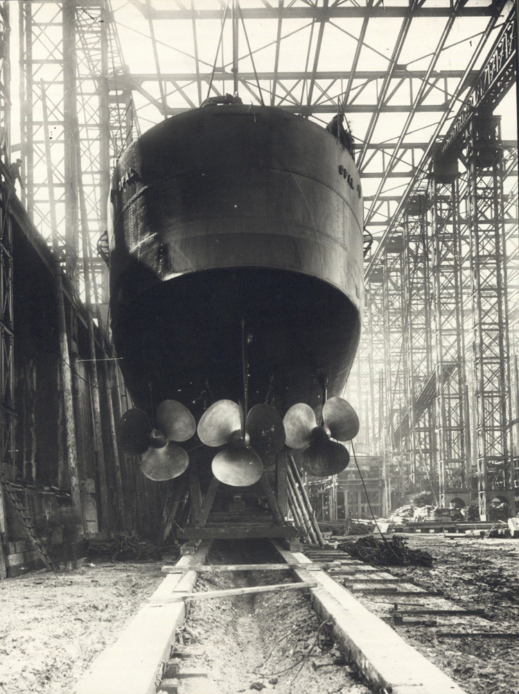 Stern view of HMS 'Opal', ready for launch at the shipyard of William Doxford & Sons Ltd, Sunderland, 11 September 1915 (TWAM ref. DS.DOX/4/PH/1/483/1). Tyne & Wear Archives is proud to present a selection of images from its Sunderland shipbuilding collections. The set has been produced to celebrate Sunderland History Fair on 7 June 2014. It's a reminder of the thousands of vessels launched on the River Wear and the many outstanding achievements of Sunderland’s shipyards and their workers. These photographs reflect Sunderland’s history of innovation in shipbuilding and marine engineering from the development of turret ships in the 1890s through to the design for SD14s in the 1960s. The Sunderland shipbuilding collections are full of fascinating stories. Some of these are represented in this set, such as the ‘Rondefjell’, launched in two halves on the River Wear by John Crown & Sons Ltd and then joined together on the River Tyne. The set also shows the vital part that Sunderland’s shipbuilding industry played during the First World War. William Doxford & Sons Ltd built Royal Naval destroyers such as HMS Opal, which served in the Battle of Jutland, while other yards constructed cargo ships to help keep these shores supplied. (Copyright) We're happy for you to share these digital images within the spirit of The Commons. Please cite 'Tyne & Wear Archives & Museums' when reusing. Certain restrictions on high quality reproductions and commercial use of the original physical version apply though; if you're unsure please